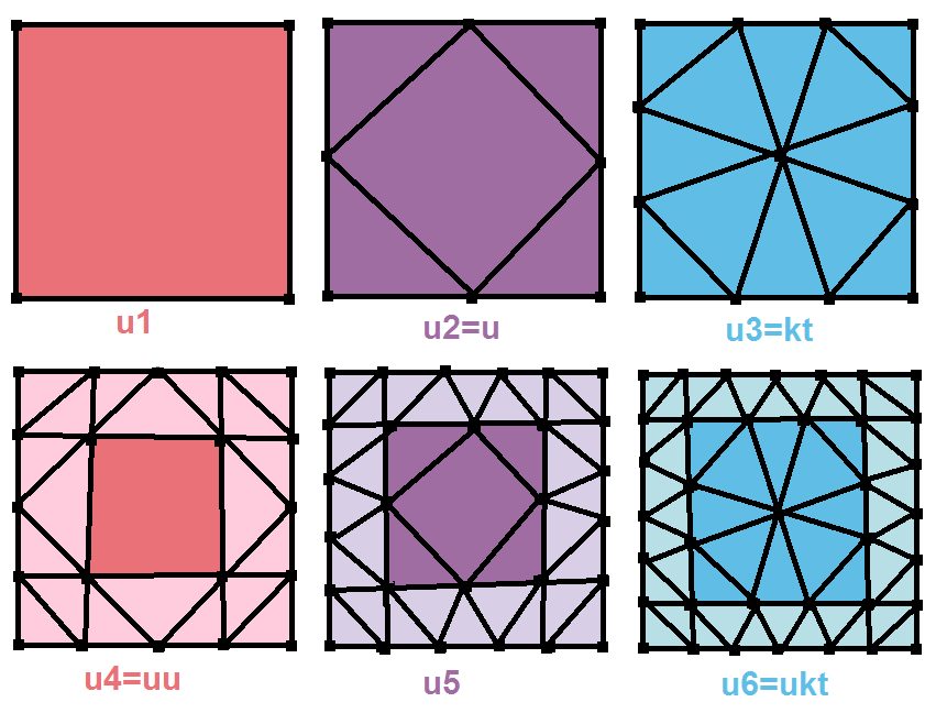 Conway polyhedron notation example operators on square face